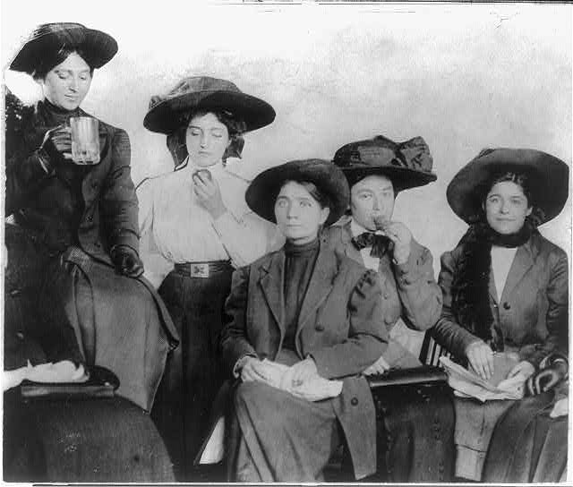 New York City women shirtwaist workers on strike, having a lunch break